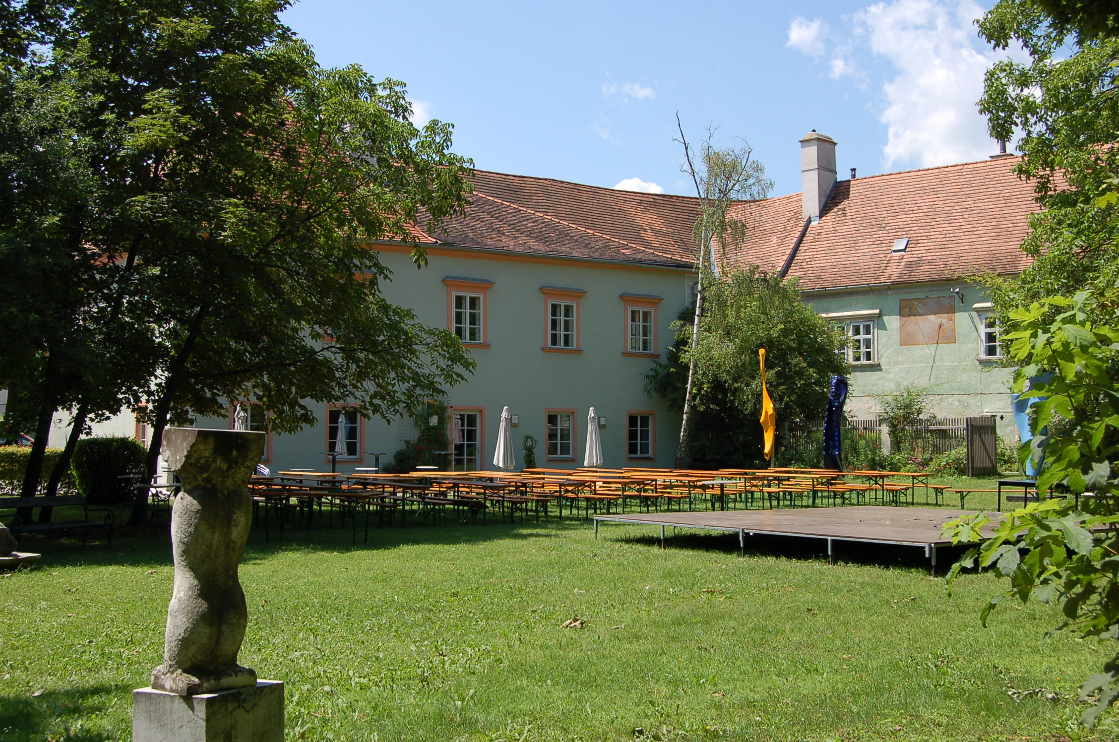 Fischau palace, Bad Fischau, Lower Austria